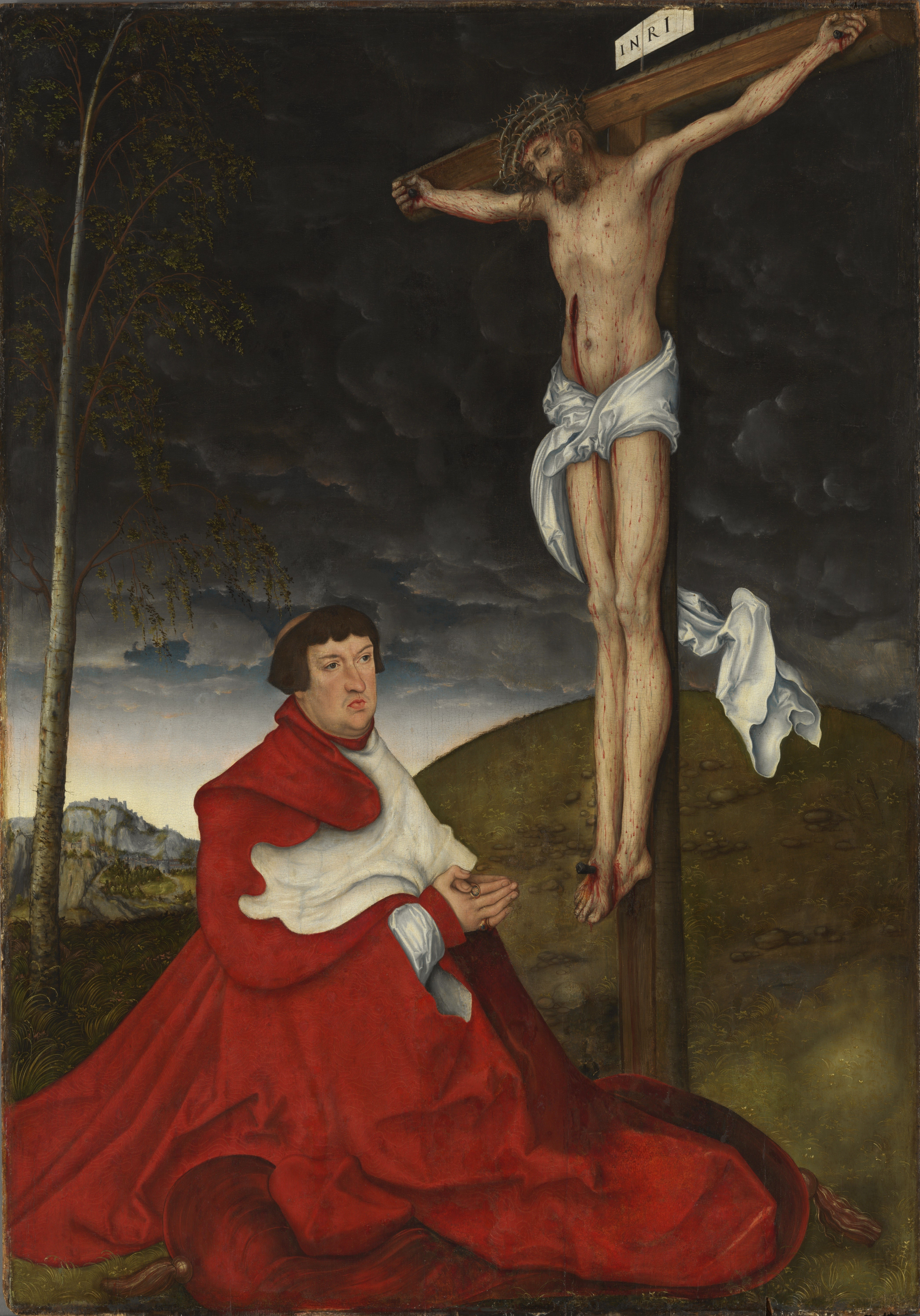 He is depicted kneeling on the ground in half profile looking to the right at Christ on the cross. There is a birch tree to his left.